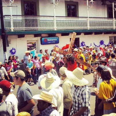 there is a picture of a procesion and representation of Christ in holly week this picture was taken in mexico in the town of acatlan hidalgo